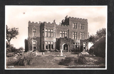 Bleak House in Broadstairs, where Dickens and his famlly enjoyed several holidays, which may have inspired the house of Mr Jarndyce in Bleak House. The actual building was named by its owners after the publication of the book.